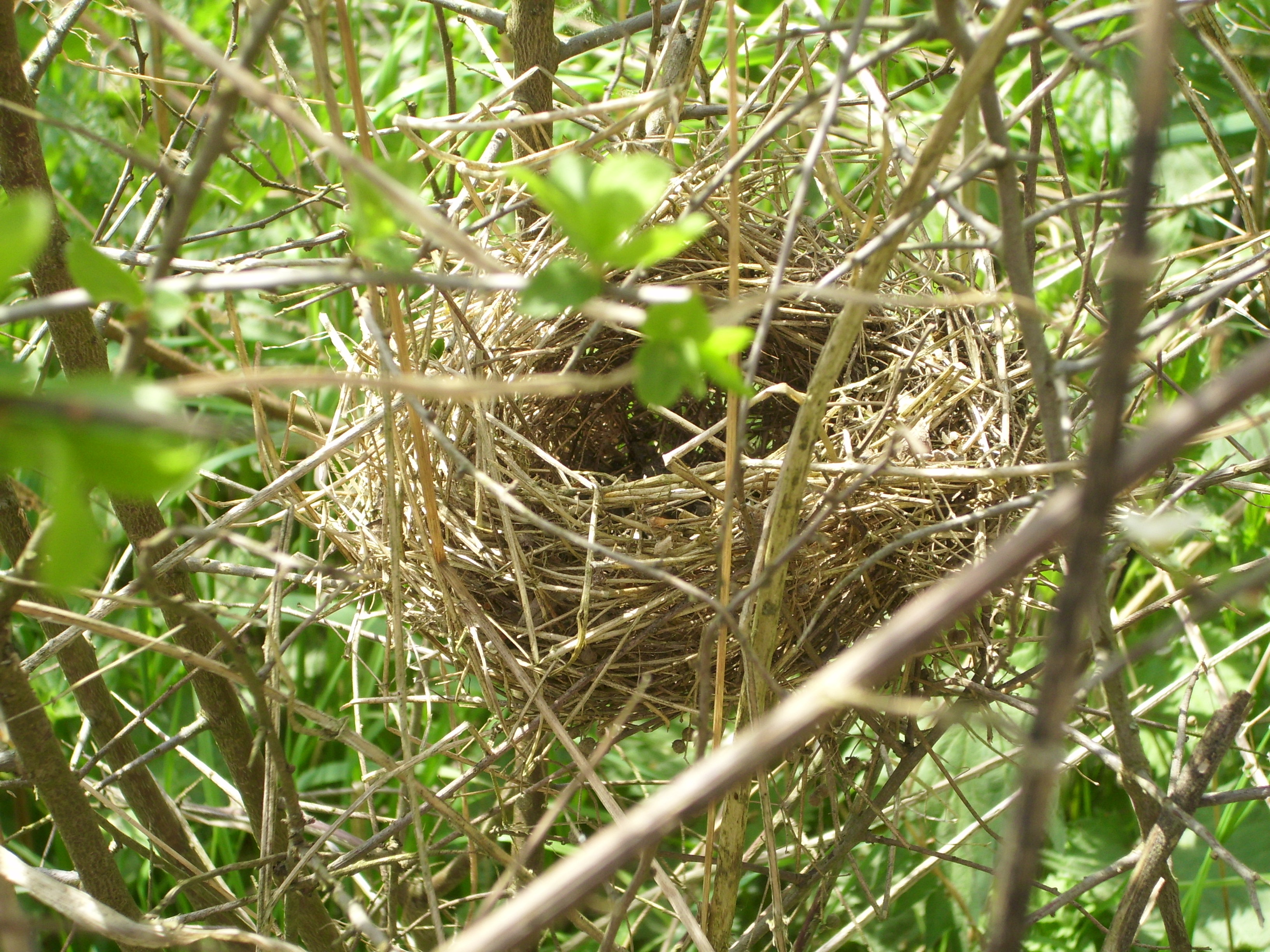 Nest of Lesser Whitethroat (Sylvia curruca), CHKO Kokořínsko, Czech republic